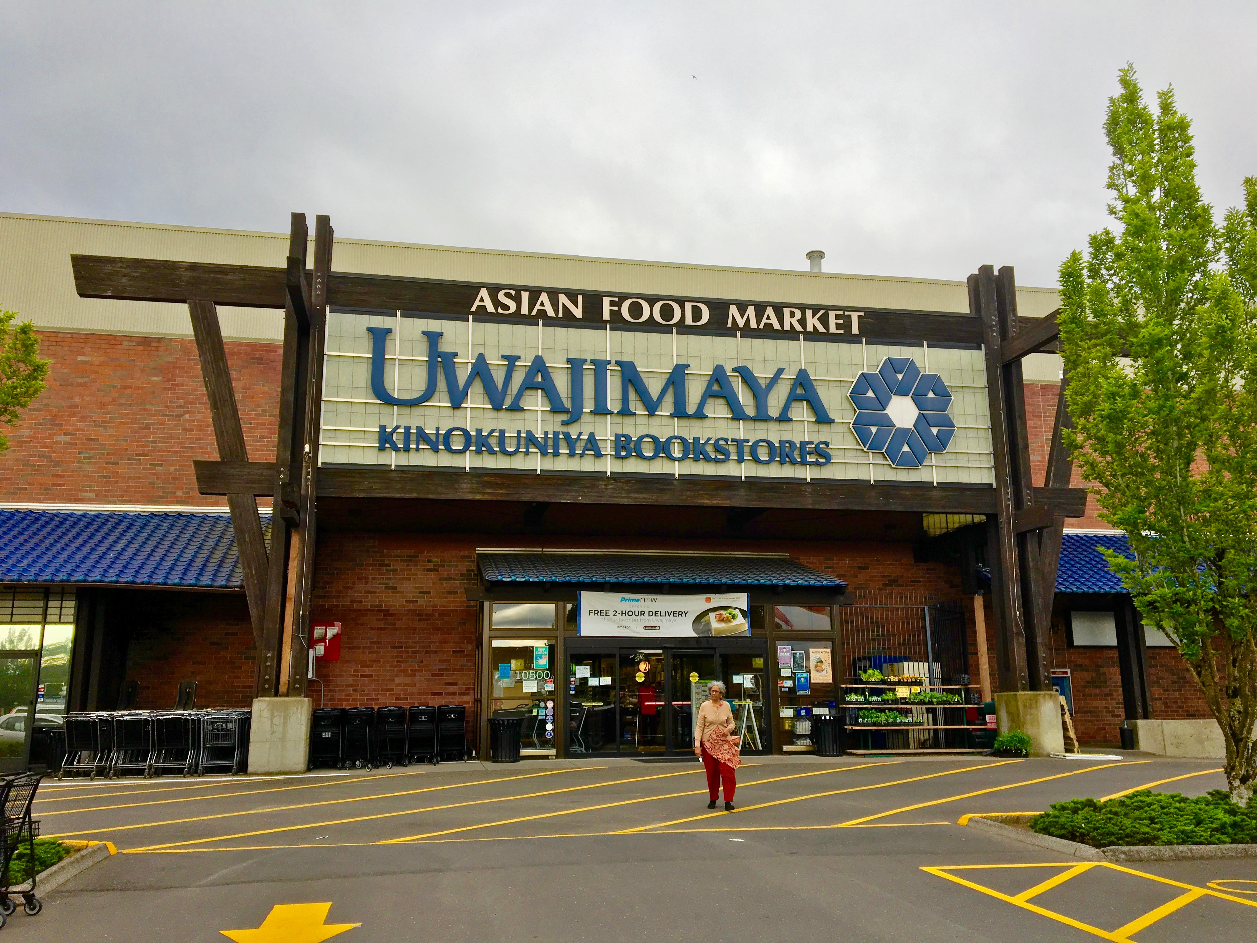 Uwajimaya Asian Food Market in Beaverton, Oregon